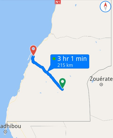 Moroccan National route 3 map, the road connects Dakhla (west) to Aousserd (east).